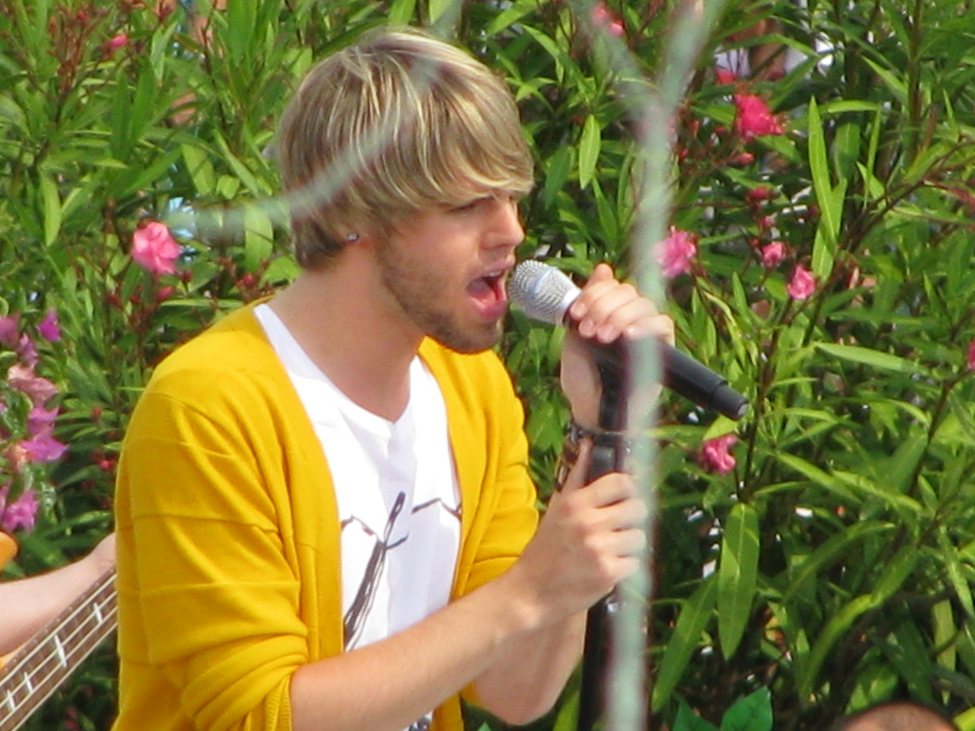 DSDS-Winner Daniel Schuhmacher